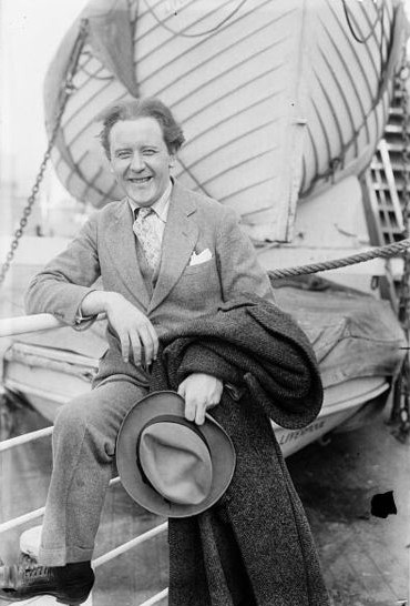 Hans Kindler (1892 – 1949), American cellist and conductor